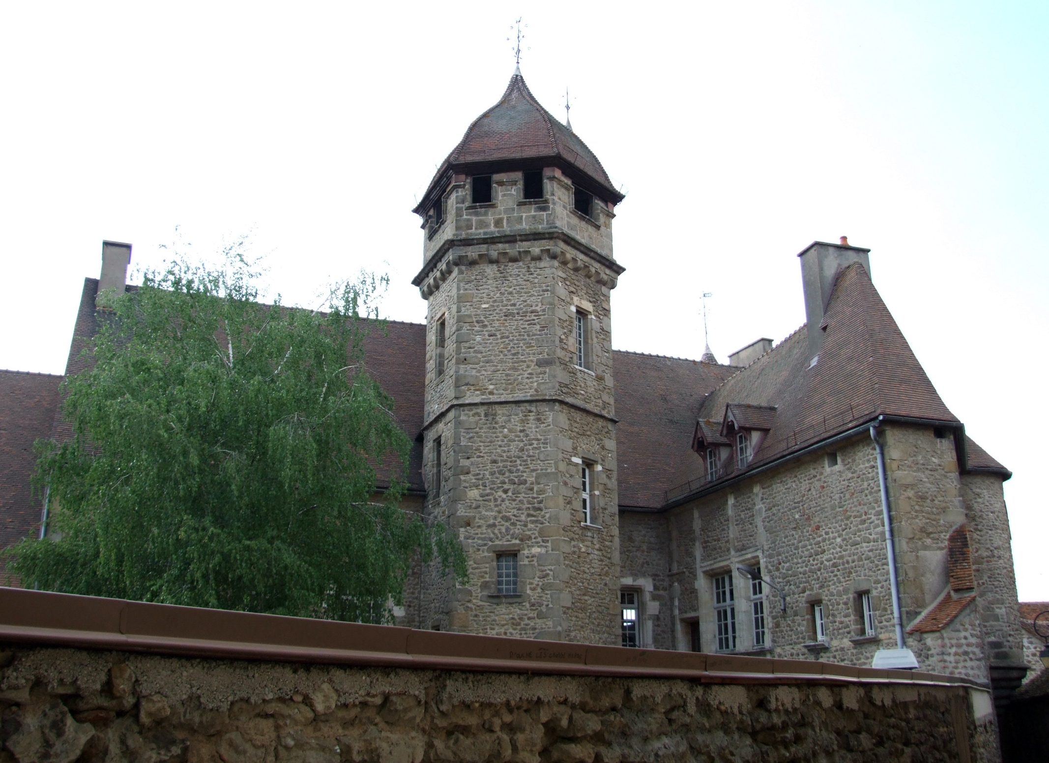 Arnay-le-Duc, Burgundy, FRANCE